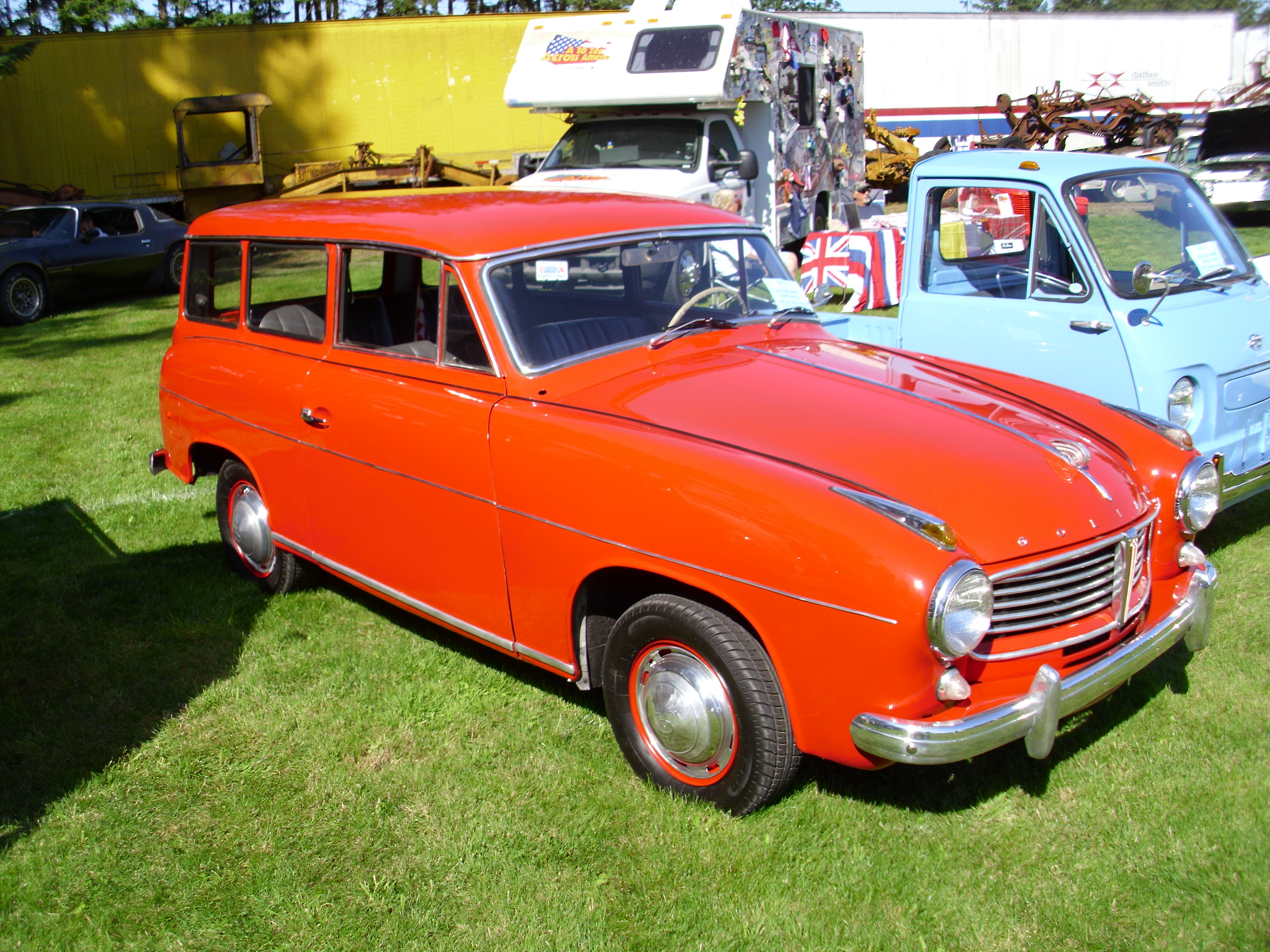 Great to see this one show up, as there are two more in the LeMay collection. Car show in conjunction with the LeMay Open House for 2011, on the Marymount campus, where much of the collection is stored.